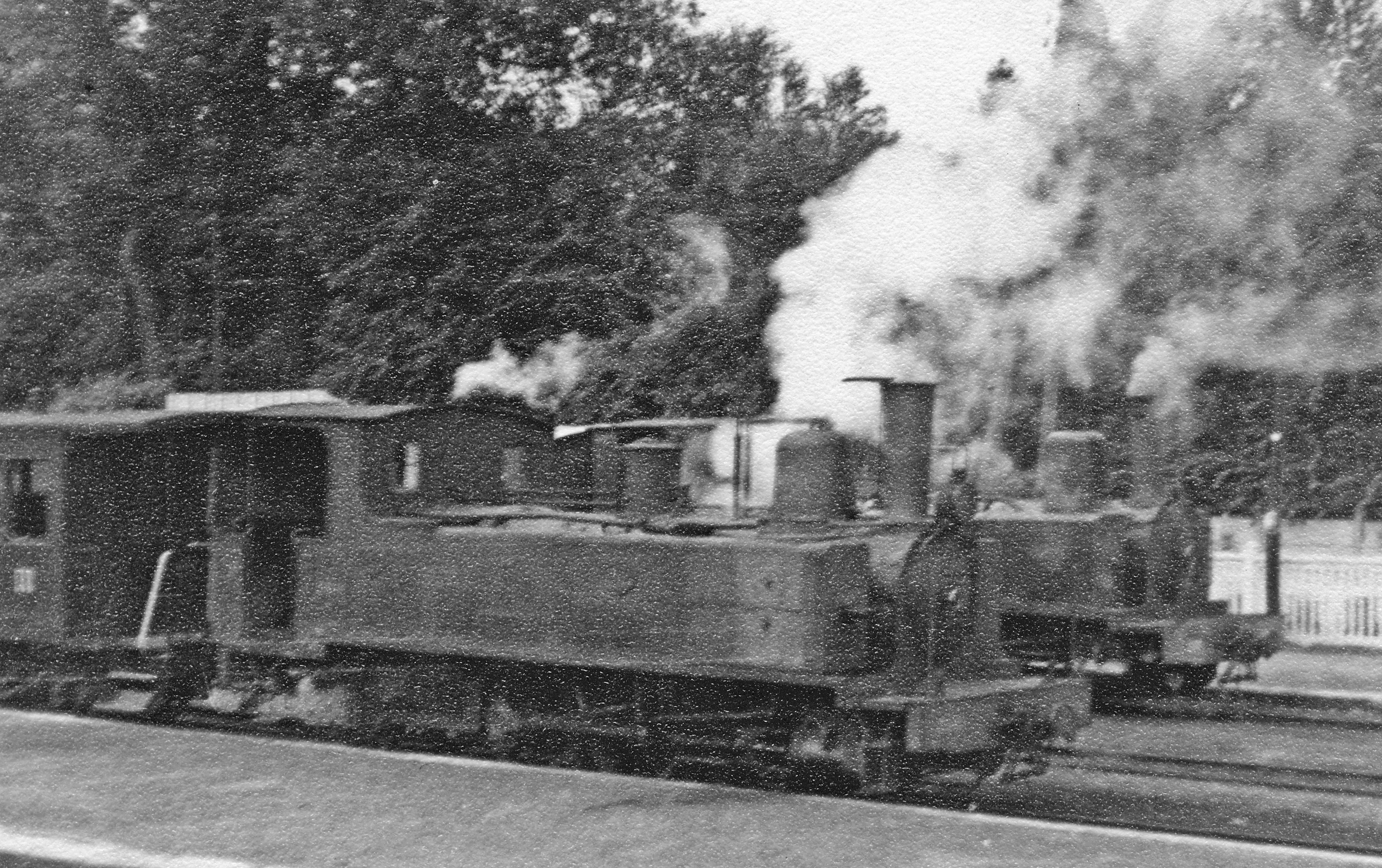 Noyelles-sur-Mer (Somme), 1949: 0-6-0Ts of the metre-gauge C. de F. de la Baie de Somme, seen from a main-line Abbeville - Boulogne train. This was before the C.de F. de B. de S. system was closed, but part later became a Heritage Preserved Railway and these locomotives may still be 'alive'.